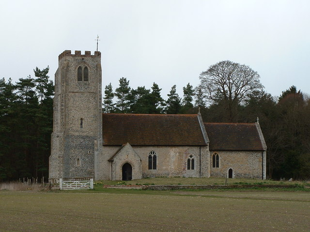 All Saints church West Harling. All Saints church West Harling Norfolk. More info